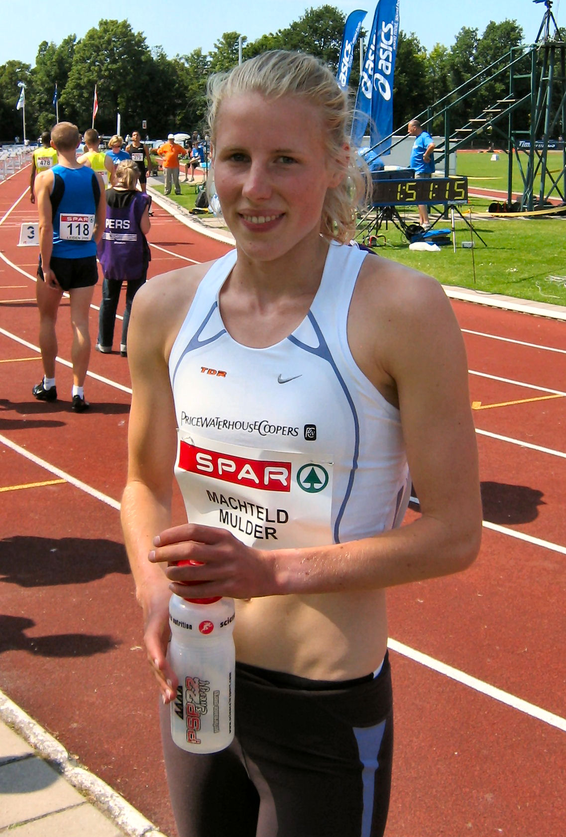 Machteld Mulder at the Gouden Spike Meeting '09 in Leiden, The Netherlands